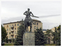 A monument to Giorgi Saakadze in downtown Kaspi. Original text